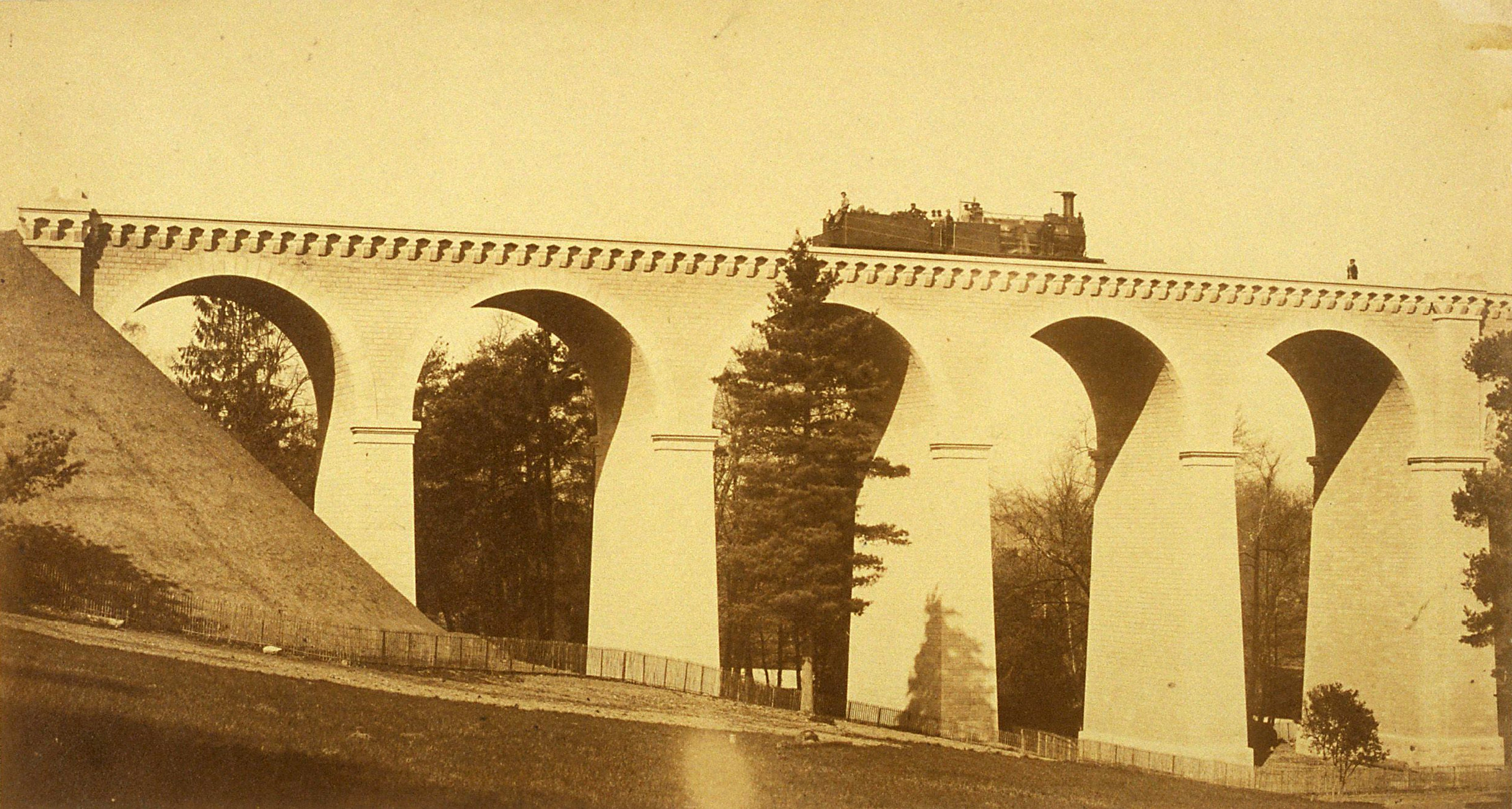 Landscape with the Viaduct at Chantilly. Albumen or other coated print from a paper negative, 23.1 x 42.4 cm. This photo comes from an album published in 1860 for the creation of the railwaytrack Paris-Creil en 1859.